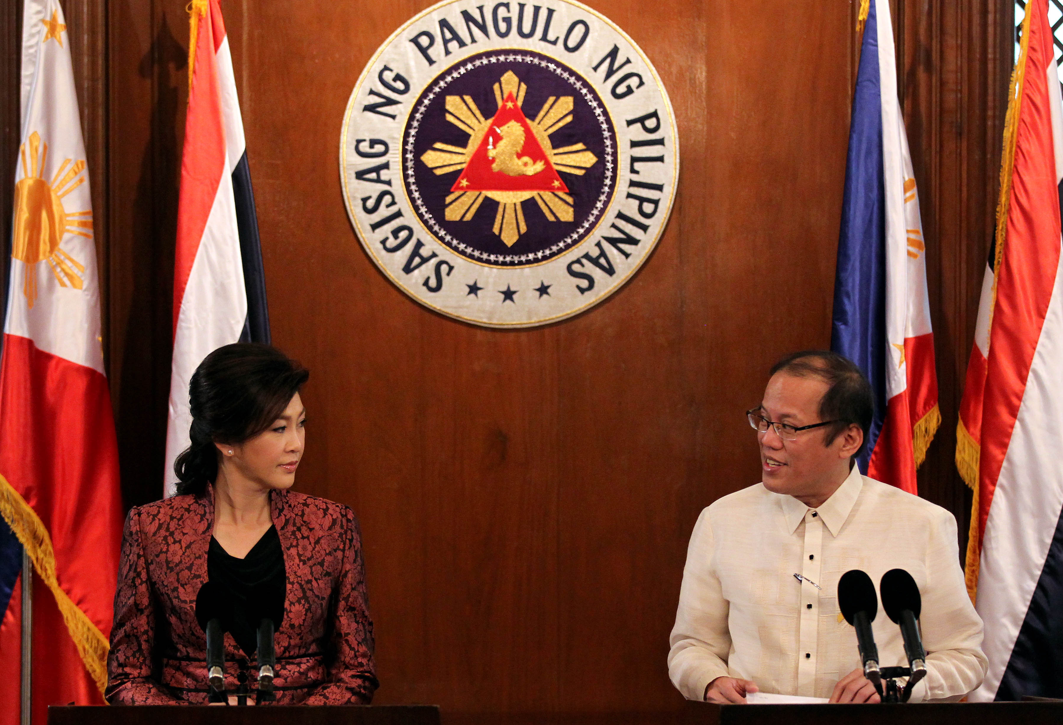 President Benigno Simeon Aquino III and Her Excellency Yingluck Shinawatra, Prime Minister of the Kingdom of Thailand, issues a Joint Press Statement at the President's Hall, Malacañan Palace during the Official Visit to the Republic of the Philippines Thursday January 19, 2012.